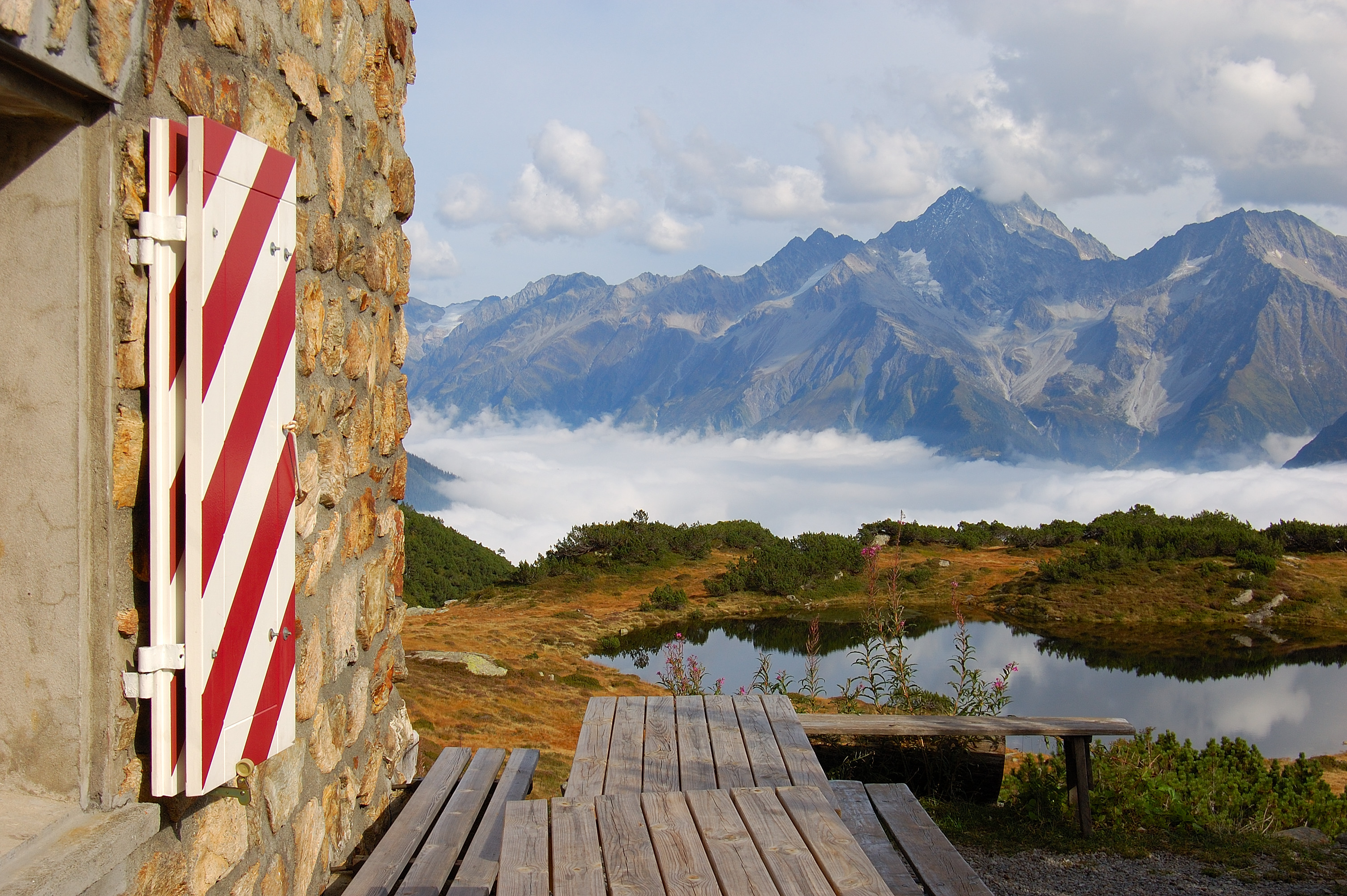 View from the Sunniggrätli hut in the Canton of Uri/Switzerland Camera: Nikon D50 Lens: AF-S DX Zoom-Nikkor 18-55 mm 1:3,5-5,6G ED